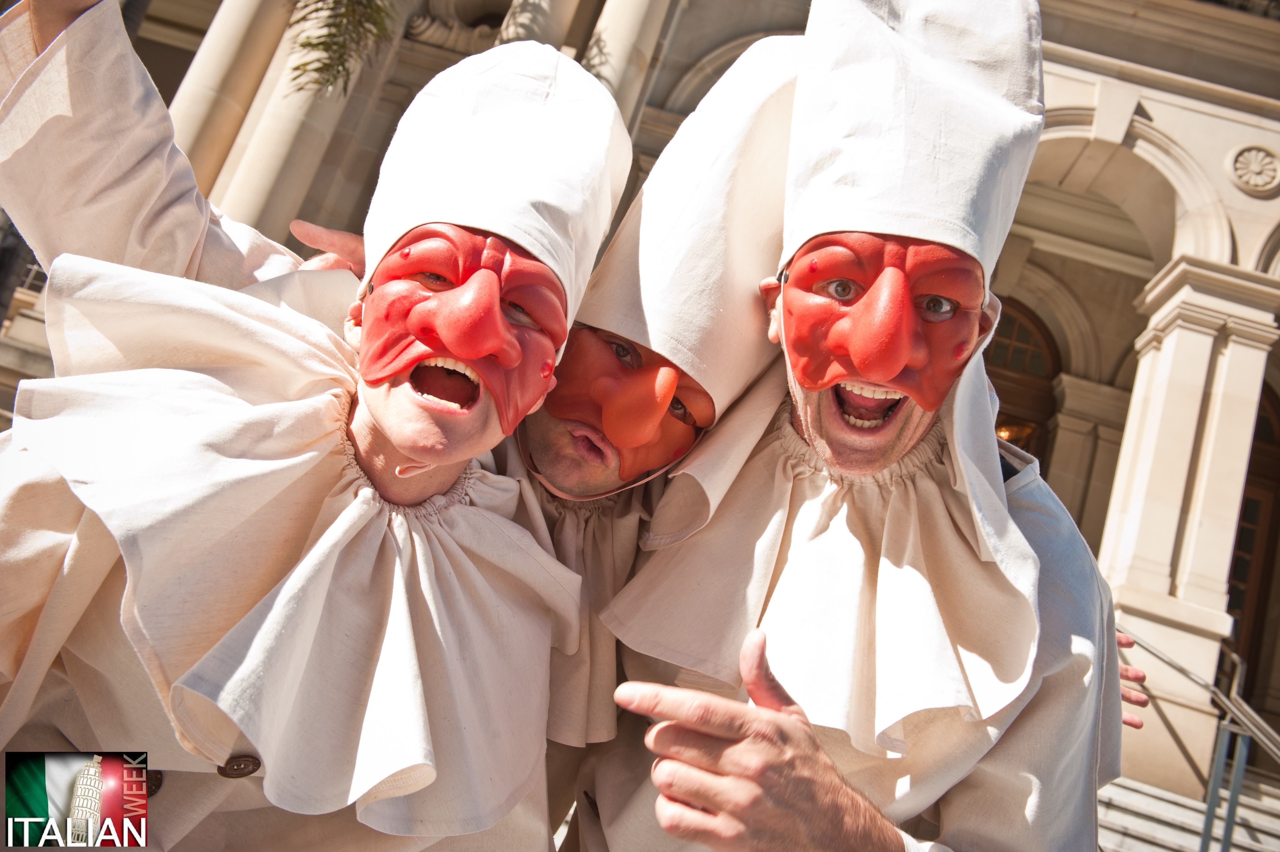 Launch of Italian Week at the Treasury Casino